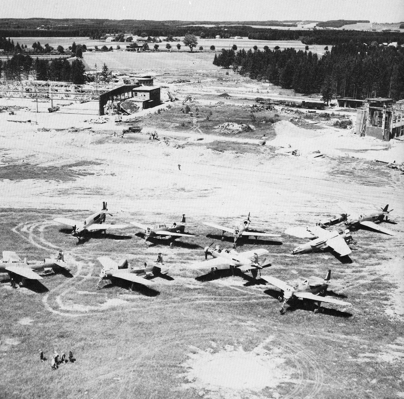 Dornier Do 335 aircraft on the runway at Oberpfaffenhofen just after the end of the Second World War.